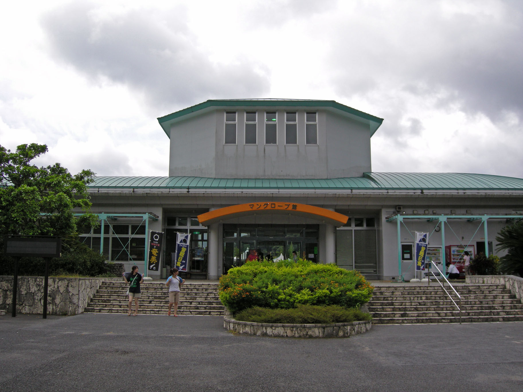 Michinoeki Amamioshima Sumiyo, Amami, Kagoshima, Japan